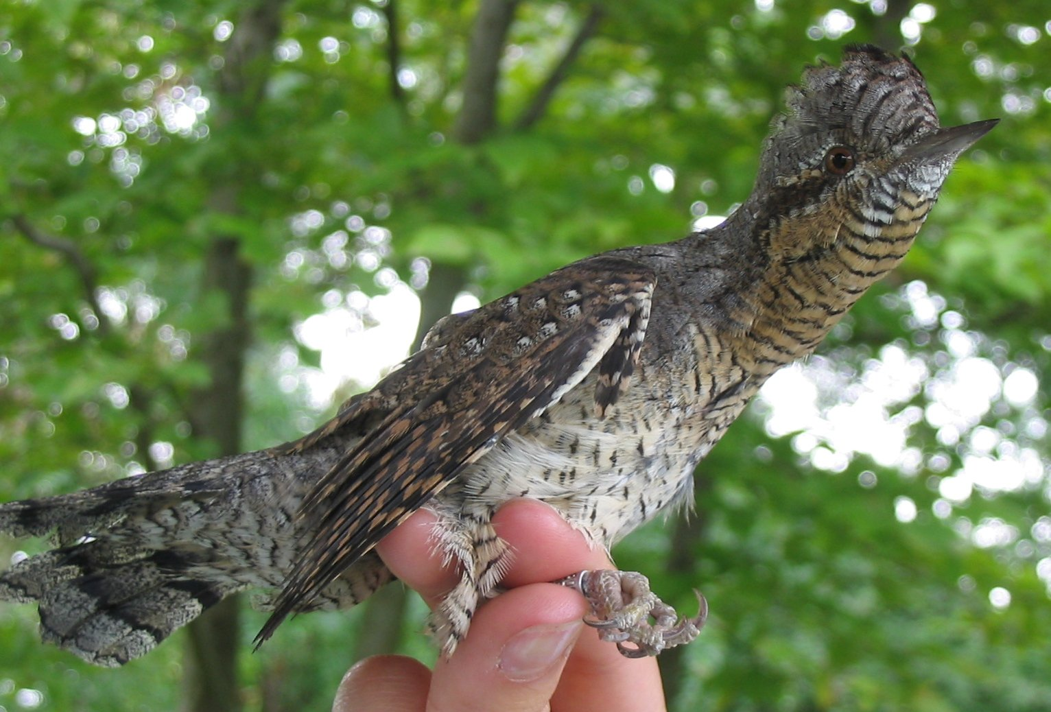 Eurasian wryneck (Jynx torquilla)